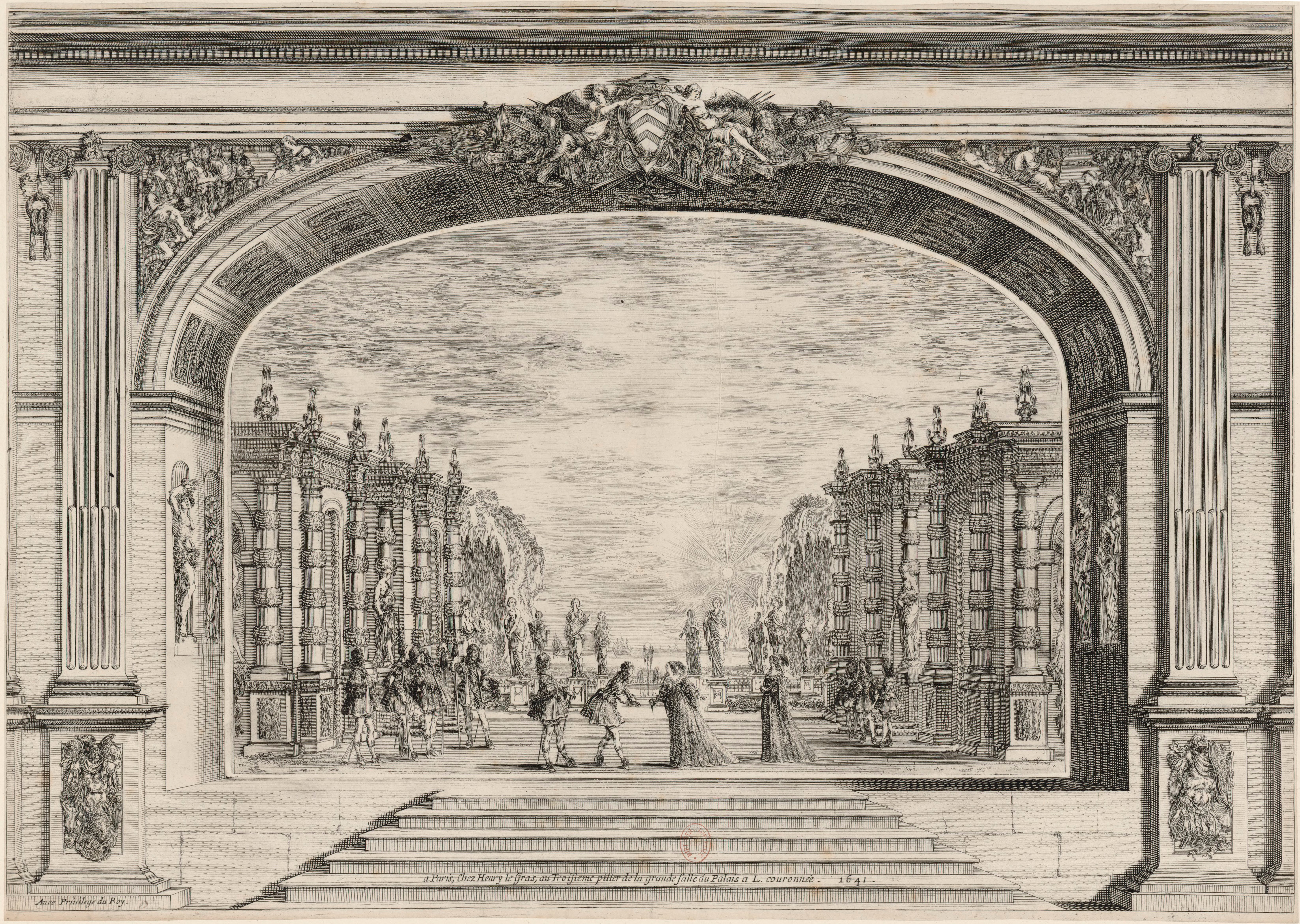 Engraving of Act 2 (3rd in a series of 6) depicting the premiere of the play Mirame by Jean Desmarets in the Grande Salle of the Palais-Cardinal on 14 January 1641.